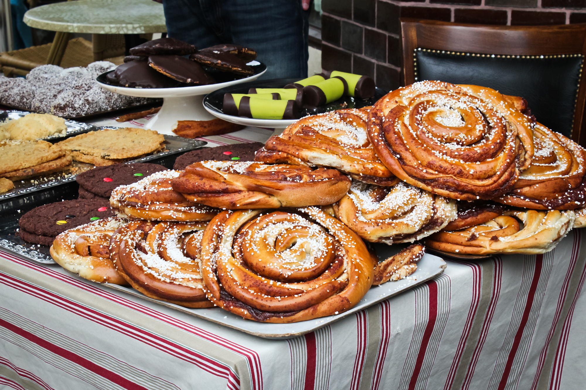 Kanelbullar